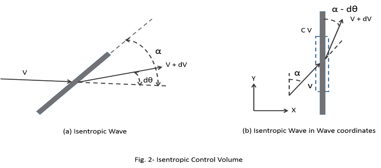 This shows the control volume diagram for system.